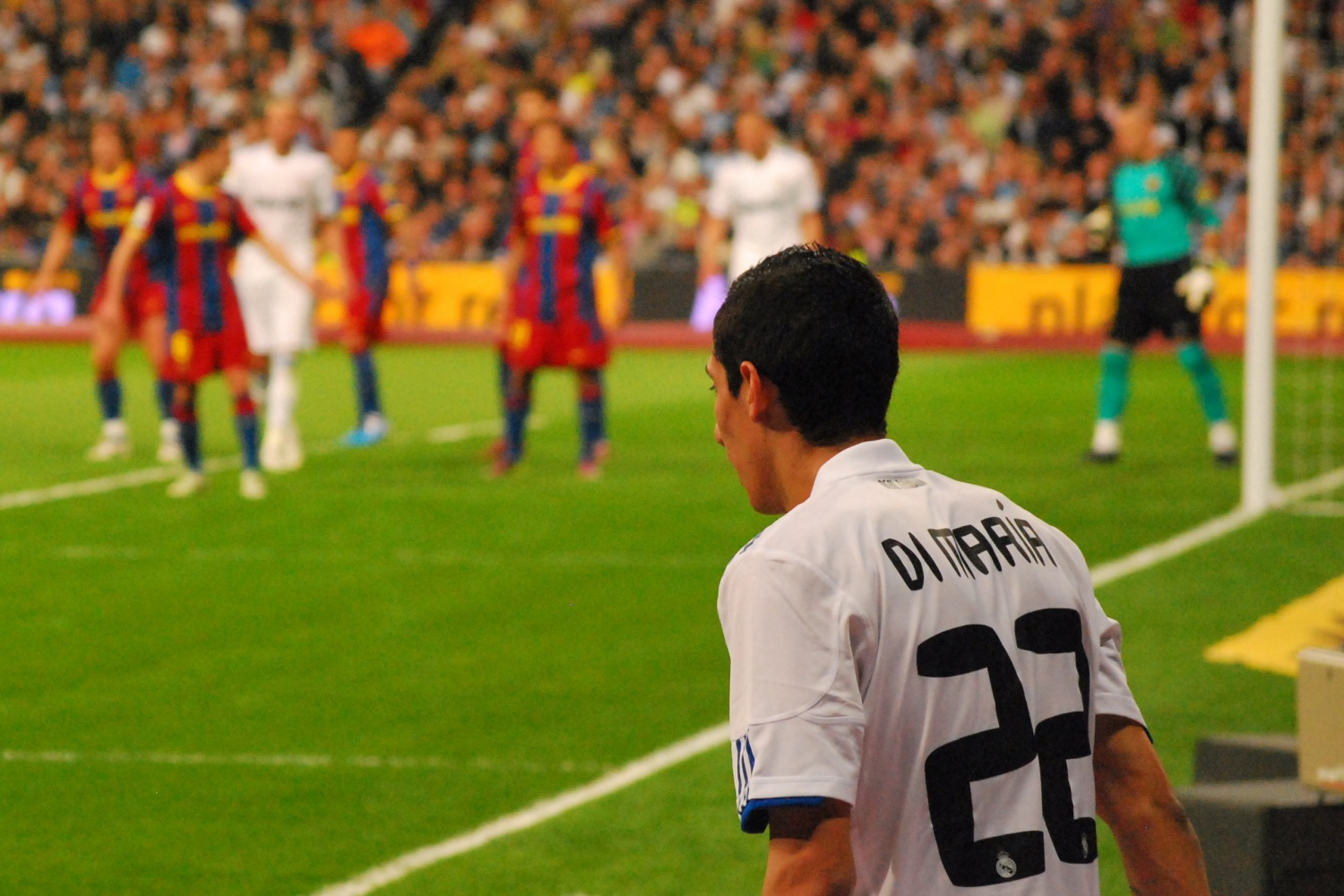 Angel di Maria taking a corner